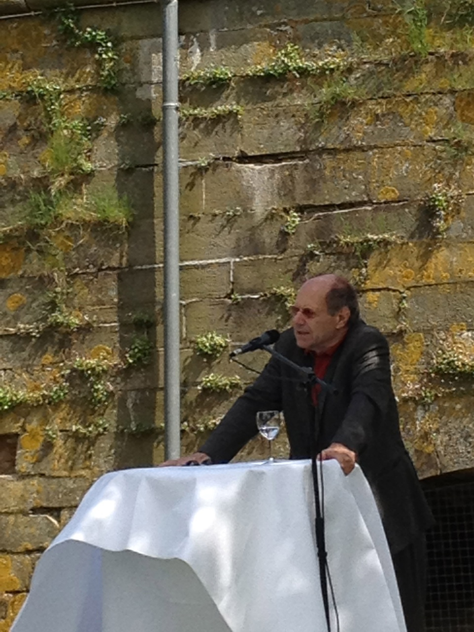 Michael Stoeber Vernissage Timm Ulrichs 2012 - Wilhelmstein